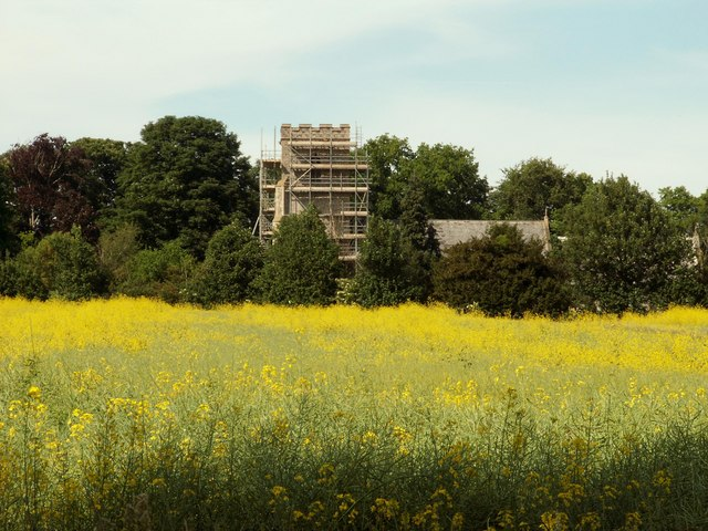 Church of St Peter in Monk Soham, Suffolk, England. A Grade I listed medieval church.